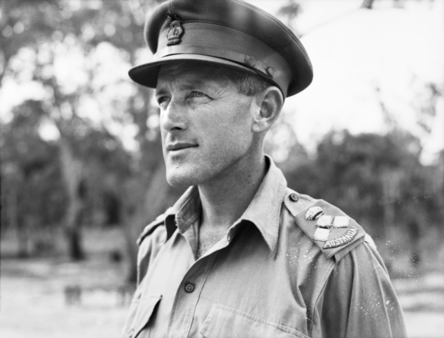 Brigadier Sir Frederick Oliver Chilton CBE, DSO & Bar (23 July 1905 - 1 October 2007) TRINITY BEACH, NORTH QUEENSLAND, AUSTRALIA. 1944-07-23. NX231 BRIGADIER F.O. CHILTON, DSO., HEADQUARTERS, 18TH INFANTRY BRIGADE.